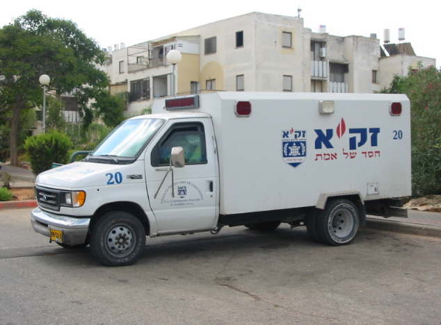 ZAKA armoured ambulance / utility vehicle